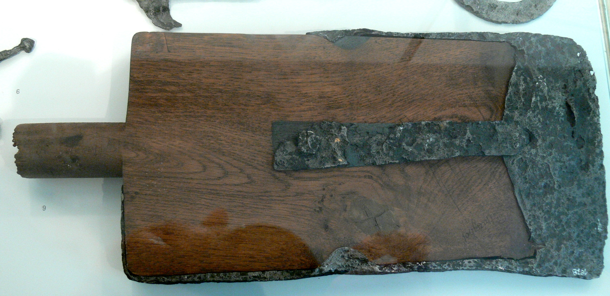 Archaeological museum Gunzenhausen ( Bavaria ). Spade.